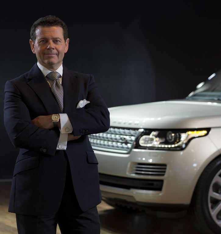 The All-New Range Rover | The People